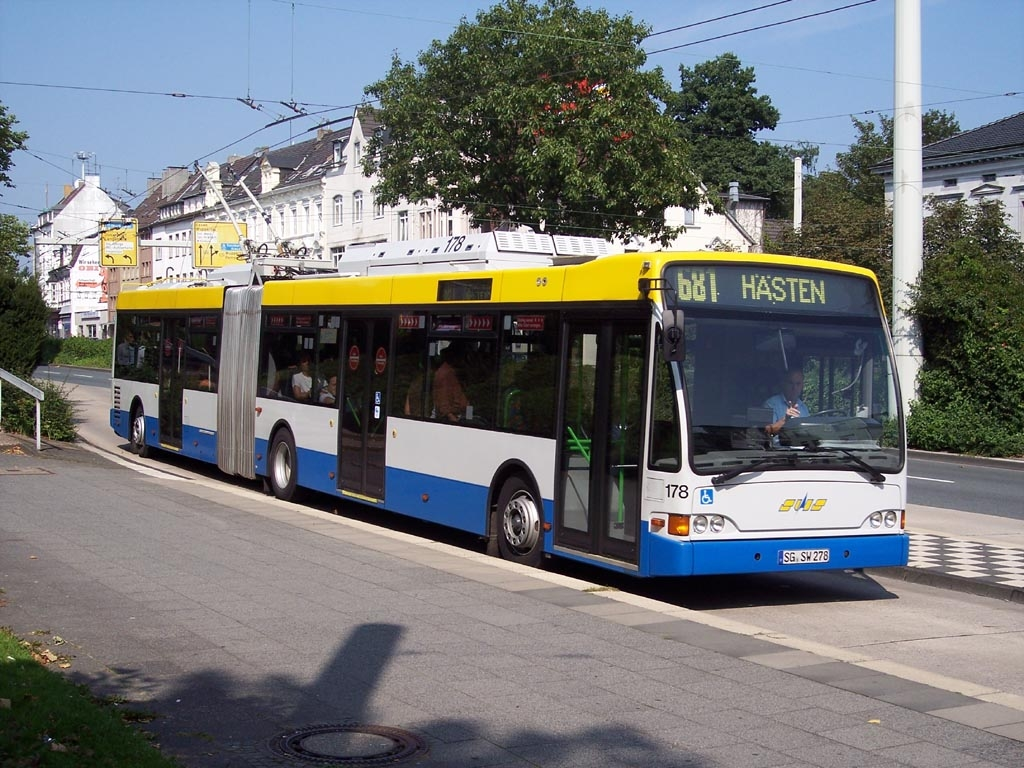 The first low floor artics on the Solingen trolleybus network were a batch of Berkhof Premier AT 18. Number 178 was photographed at Schlagbaum.